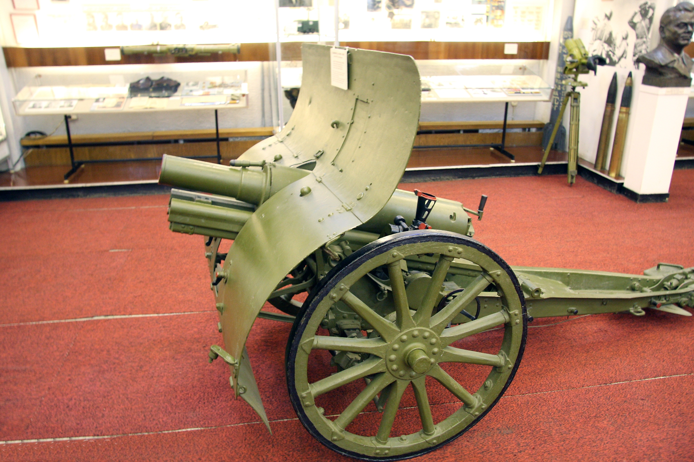 Air Defense History Museum in Zarya in Moscow Oblast.